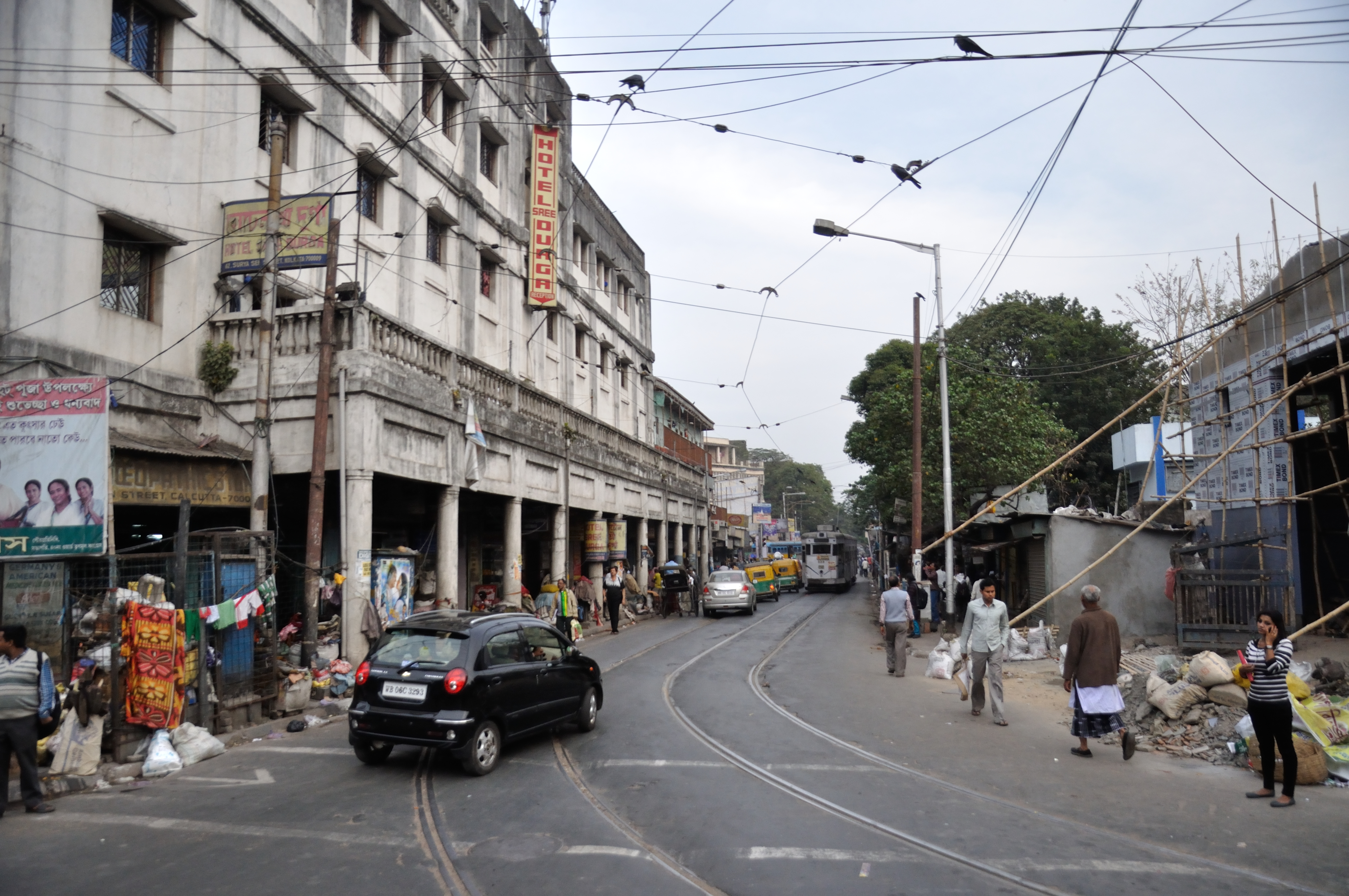 Photographed in Kolkata.